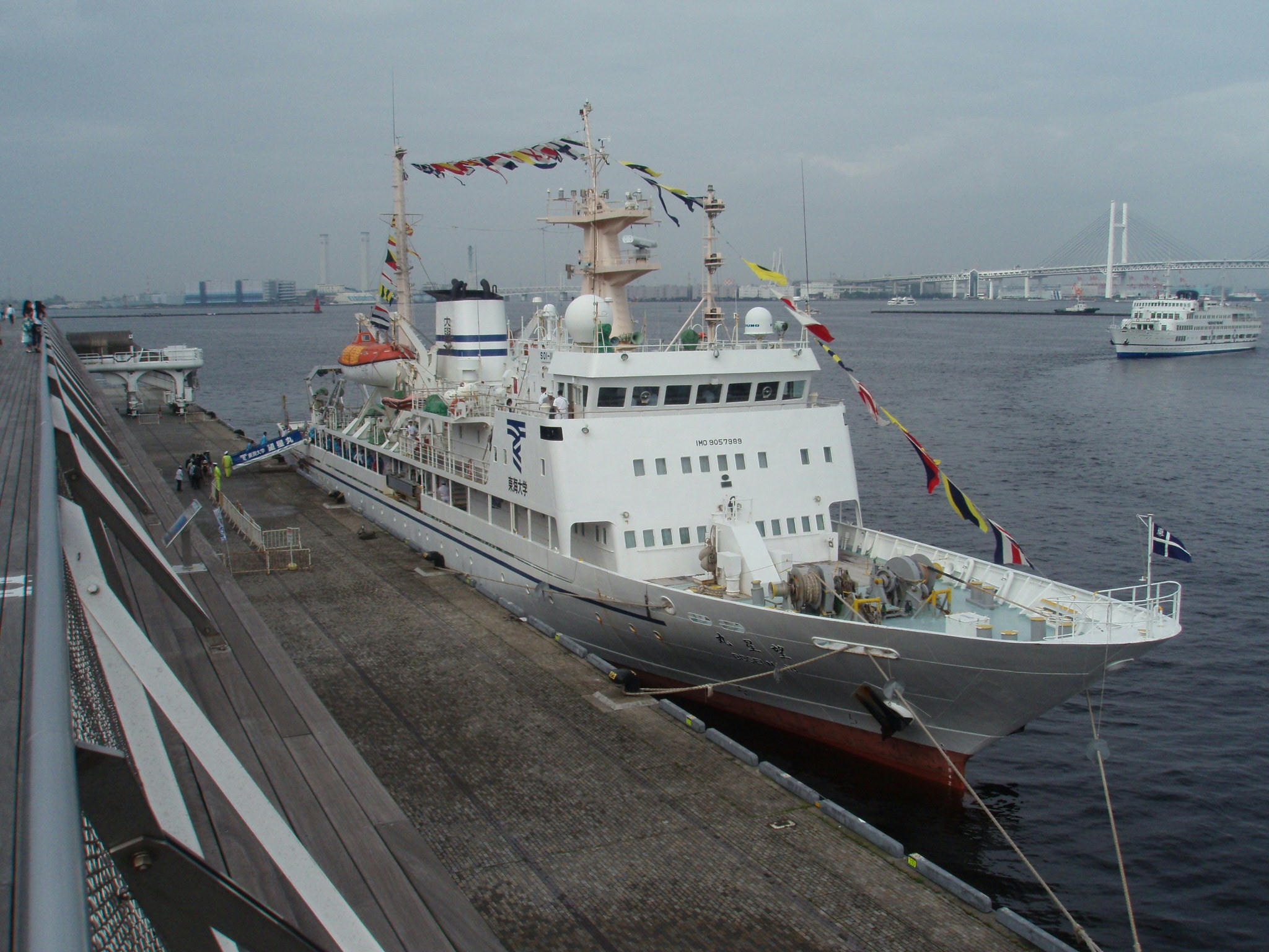 Tokai University, Research and Training Vessel "BOSEI MARU". Accept an appointment of A Grand Exposition for Yokohama's 150th Year, Public open day in YOKOHAMA JAPAN.